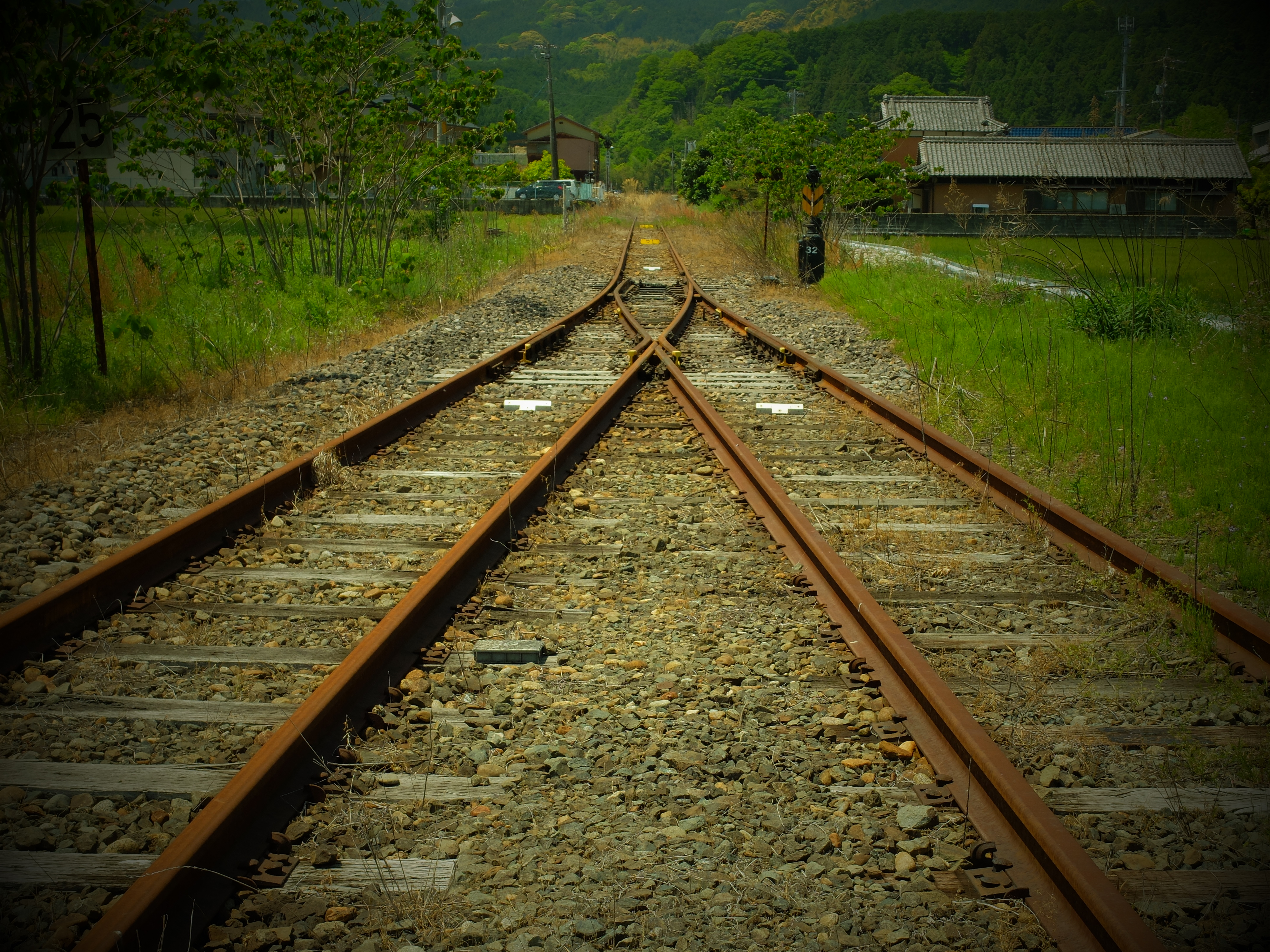 The rail which was rusted of the suspended Ieki Station